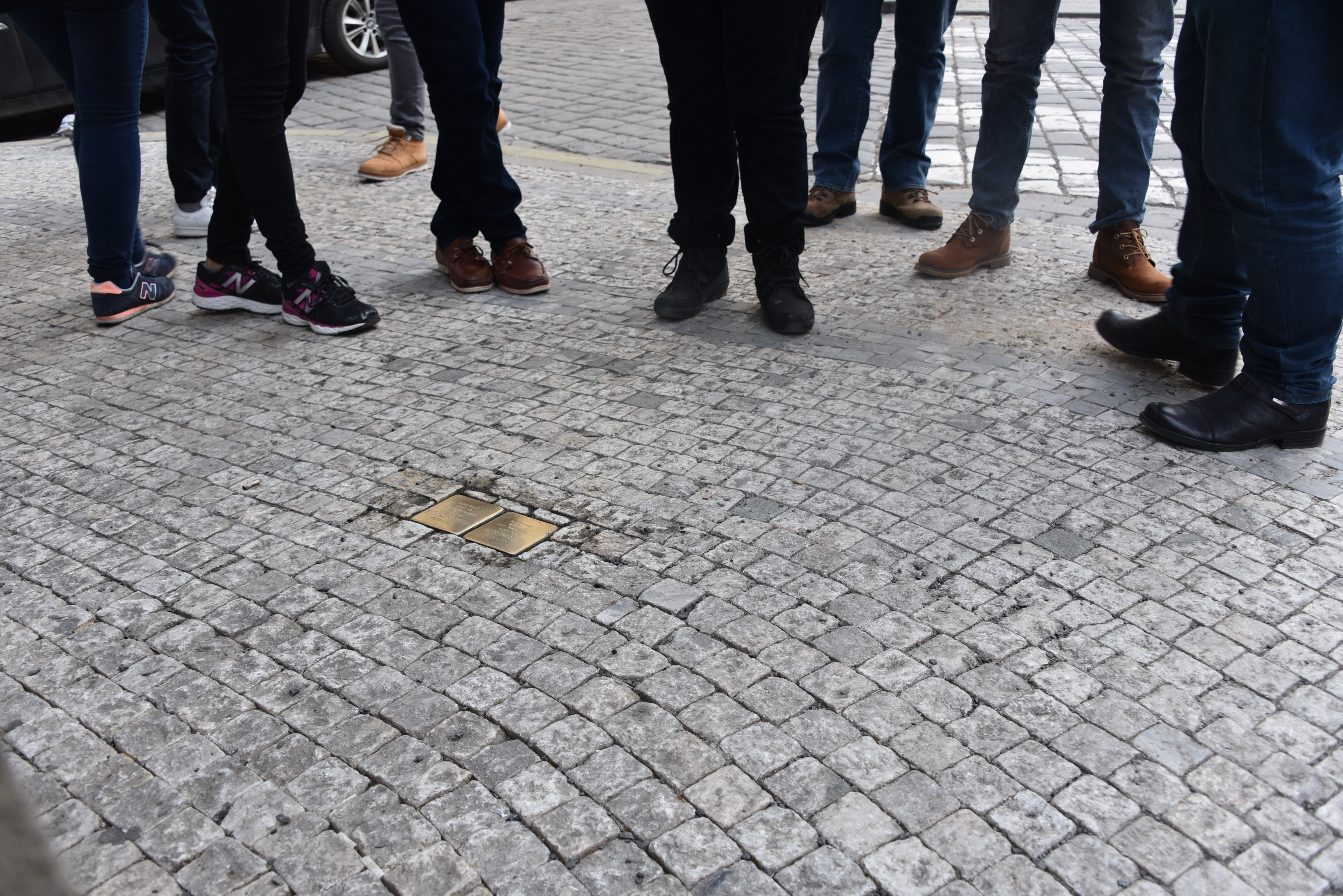 A Guided Tour through Praha includes a moment of silence in front of the Stolpersteine for Eduard Böhm and Hermína Böhmová in nám. Franze Kafky 2 (Josefov)